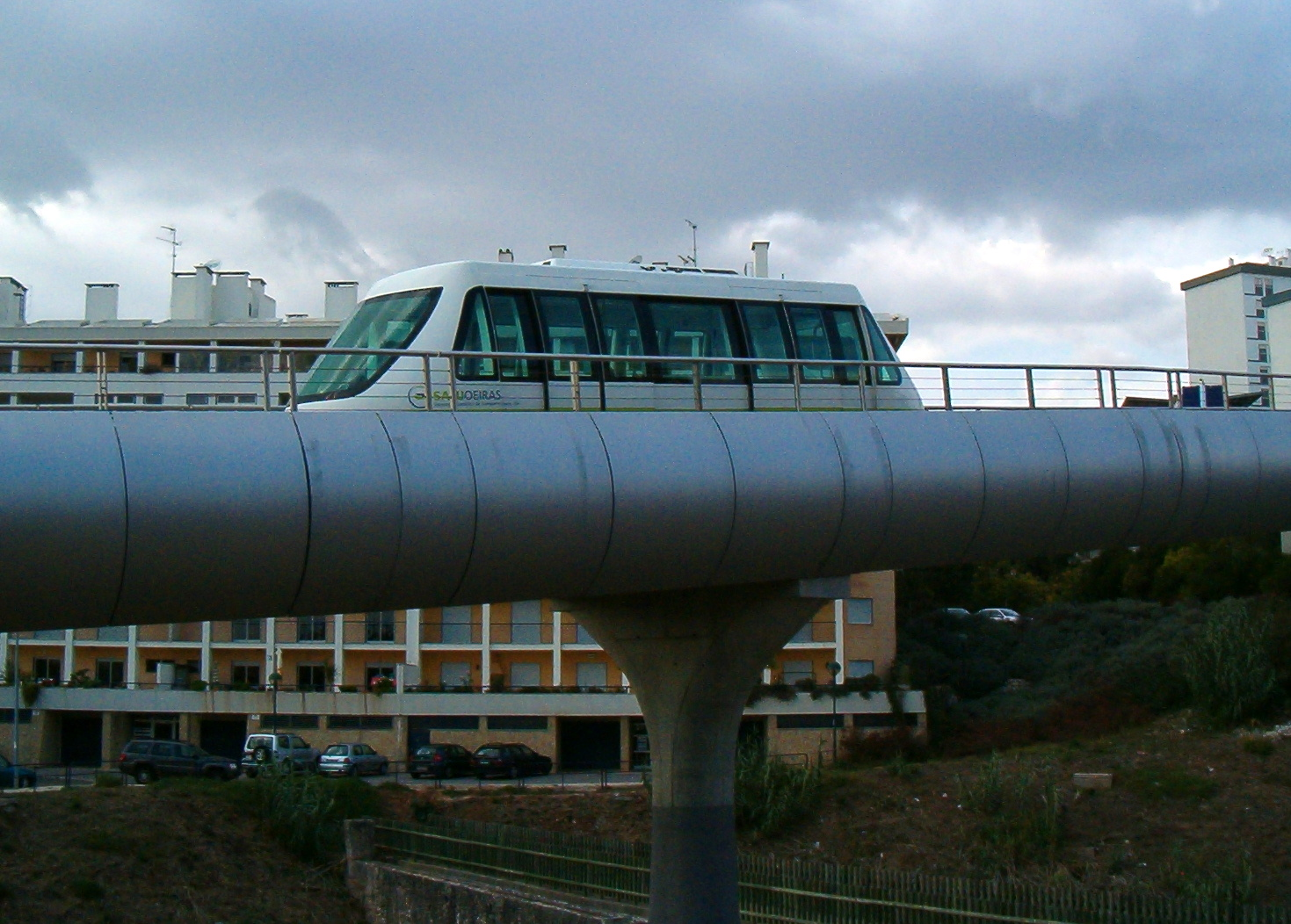 Oeiras_SATU